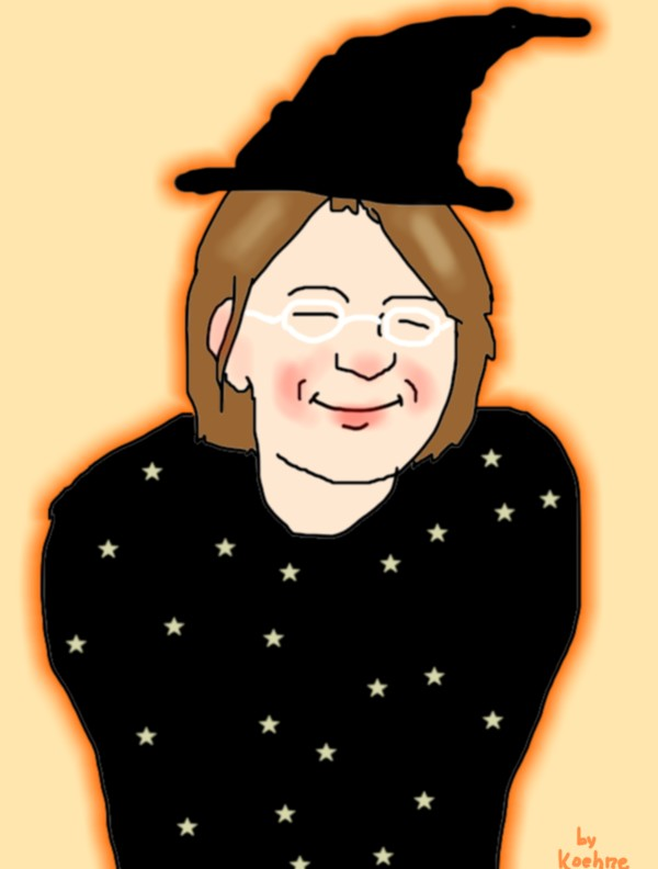 I don't do art for a living, neither for personal nor professional propaganda. I don't make any drawings for money. Thanks.